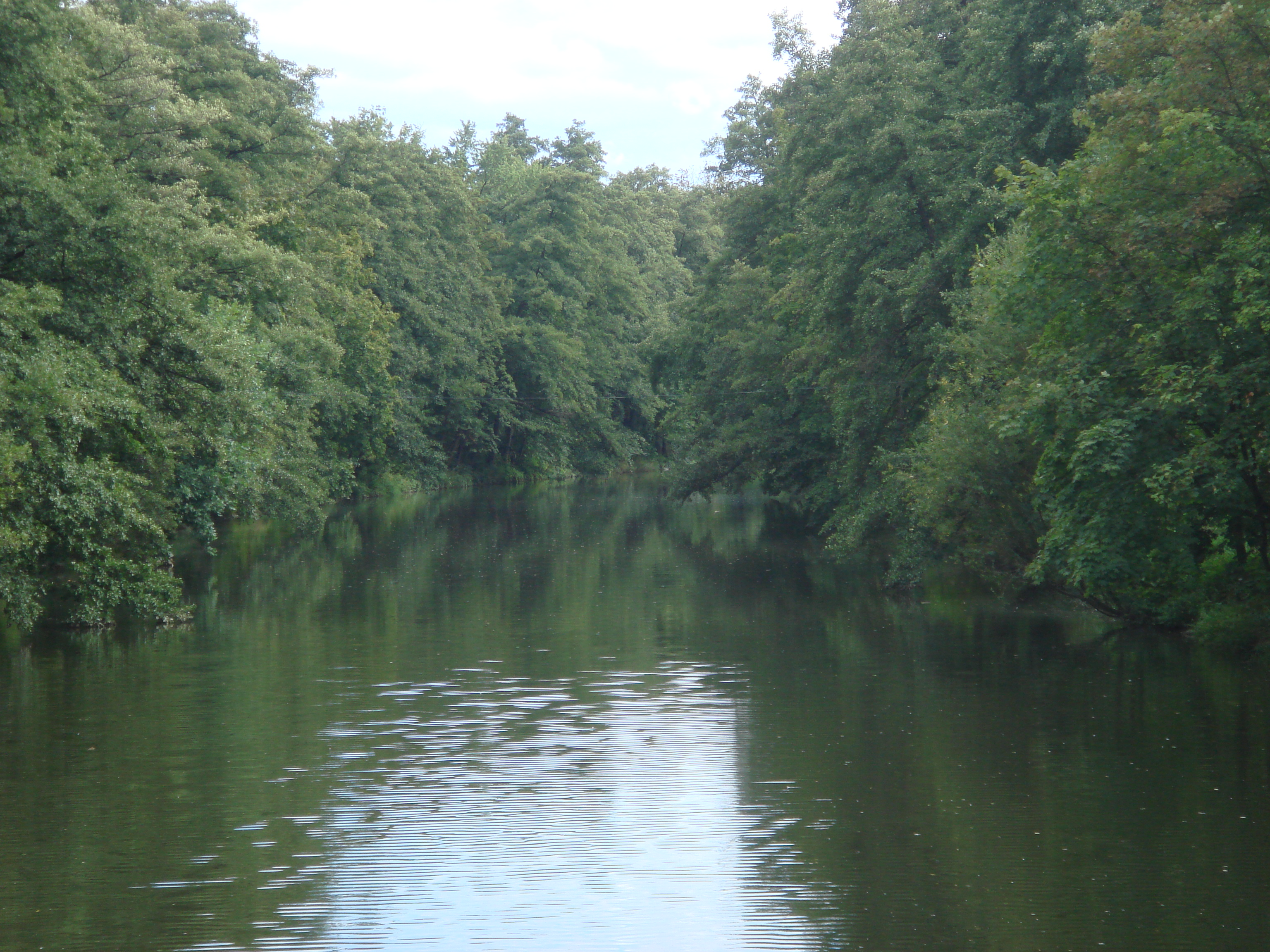 River Chrudimka in Pardubice (Pardubice Region, Czech Republic).